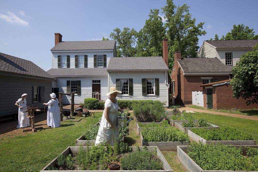 Alabama Constitution Village in Huntsville, Alabama